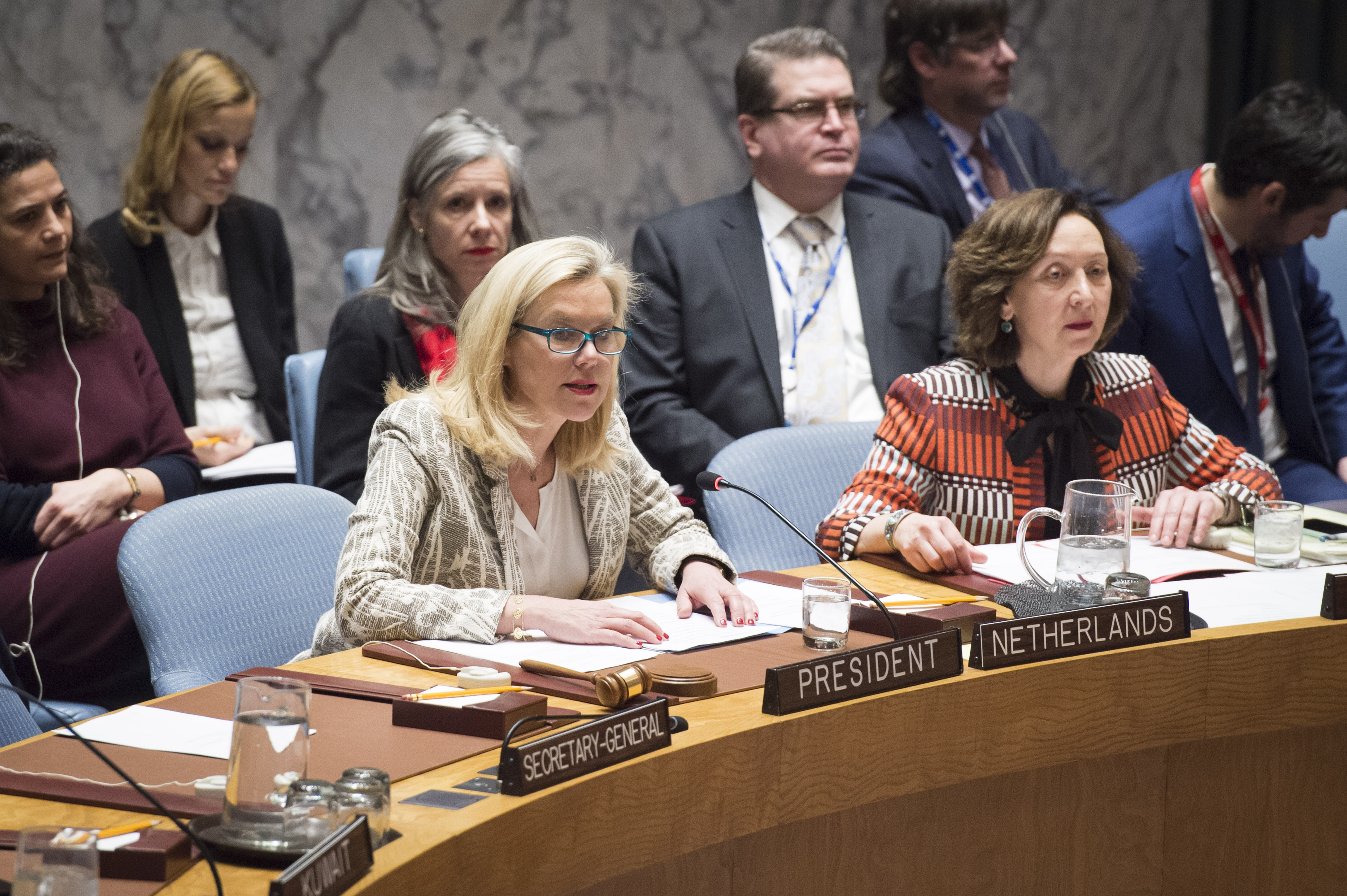 Security Council Considers Situation in Afghanistan Sigid Kaag, Minister for Foreign Trade and Development Cooperation and President of the Security Council for the month of March, chairs the Security Council meeting on the situation in Afghanistan.